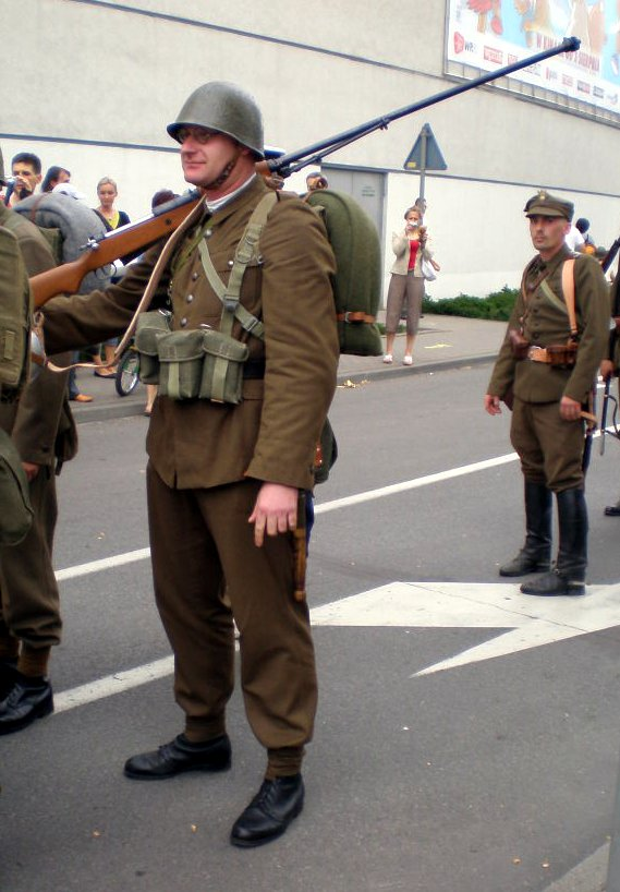 Gdynia, Polish "soldier" carrying Anti-tank rifle model 35 or 39.